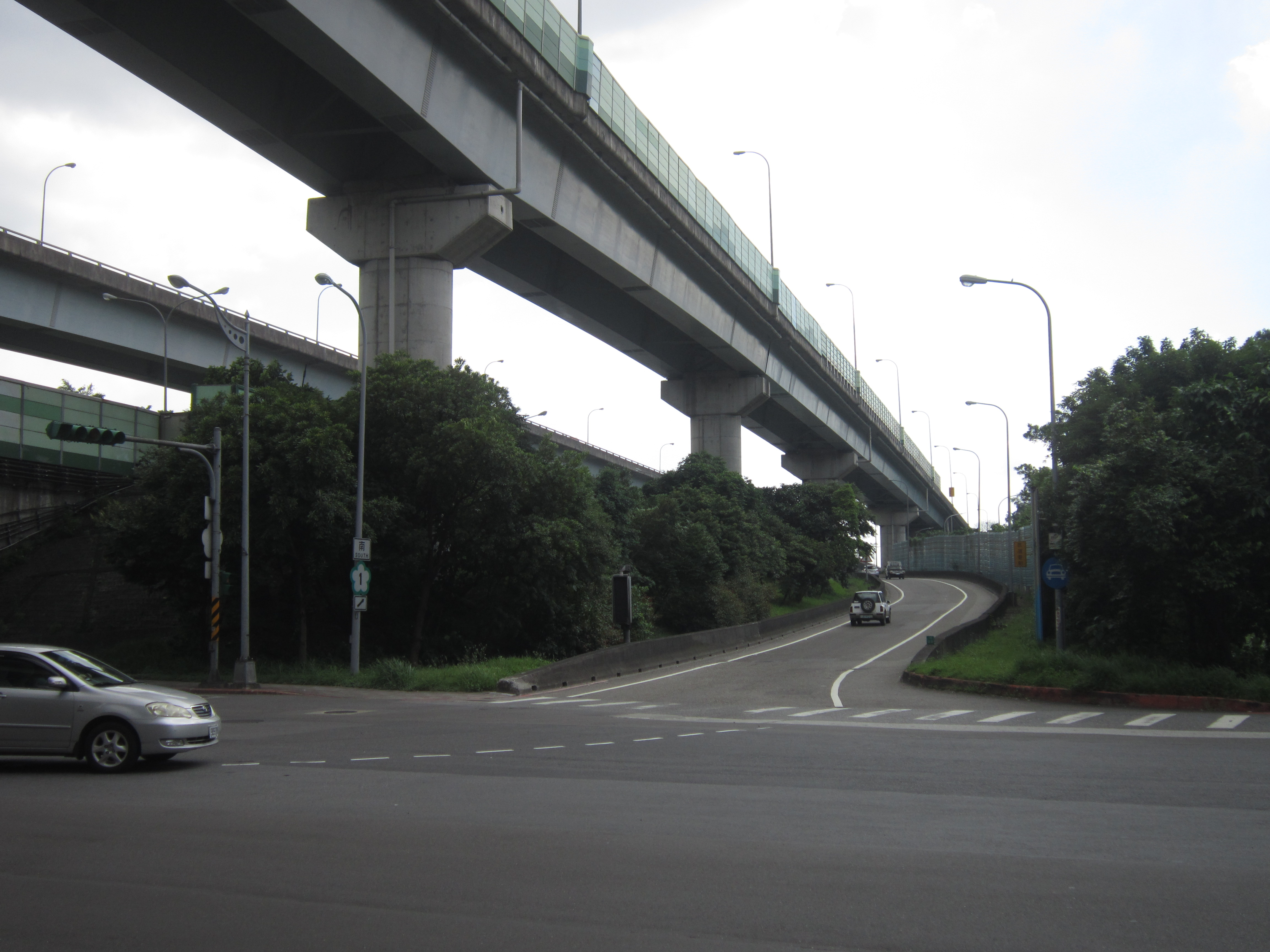 Dong_Hu_Interchange(Freeway)